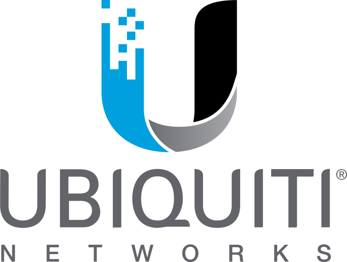 New Logo of Ubiquiti Networks (2014)